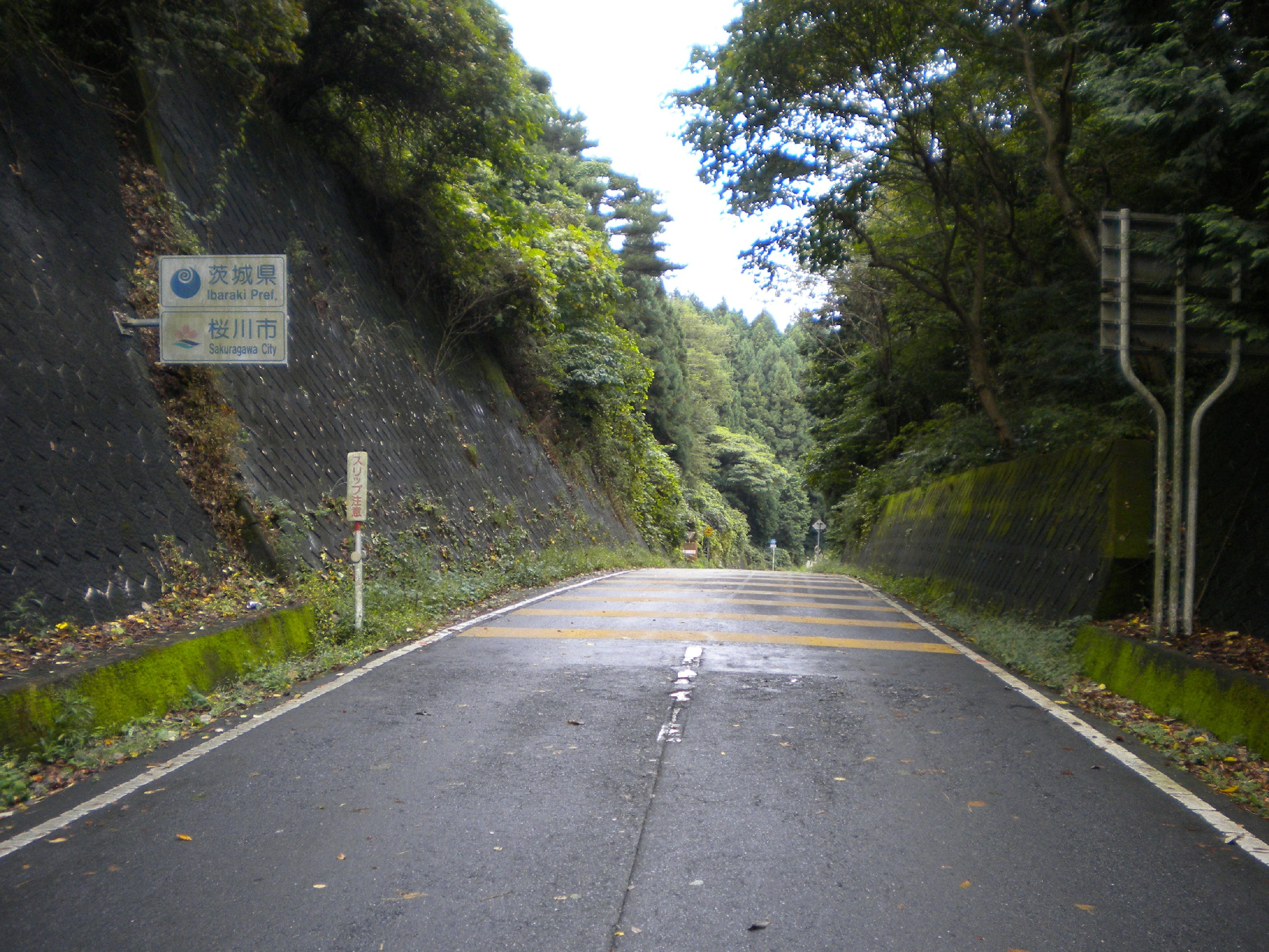 The Tochigi Prefectural Road and Ibaraki Prefectural Road Route 286 on the prefectural border